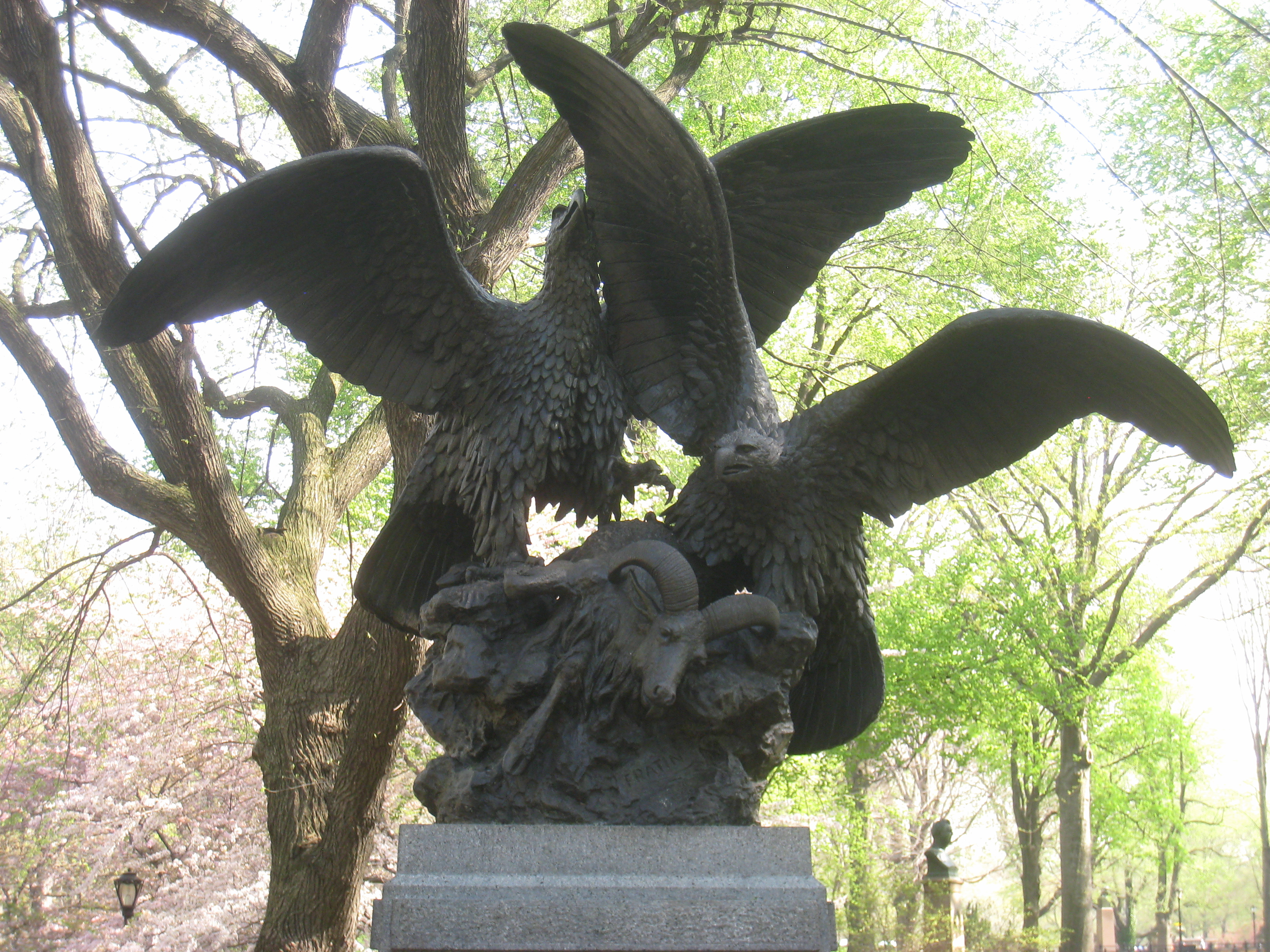 "Eagles and Prey" sculpture by Christophe Fratin (1801-1864), Central Park, New York City, New York, USA.